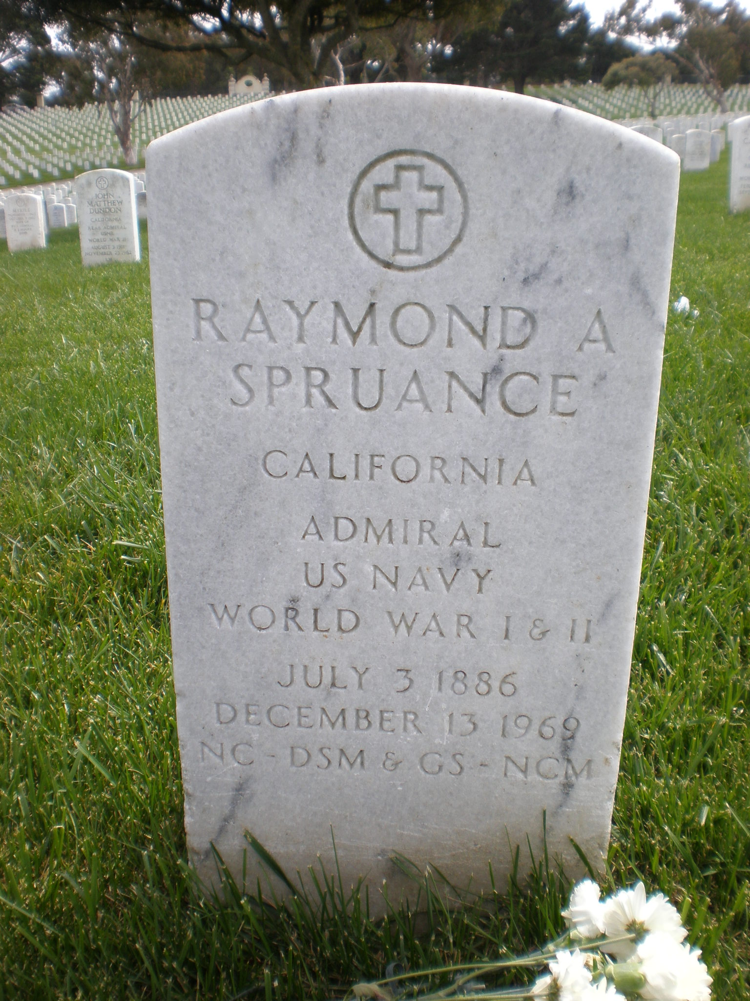 The headstone of Admiral Raymond A. Spruance, located at Golden Gate National Cemetery in San Bruno, California.